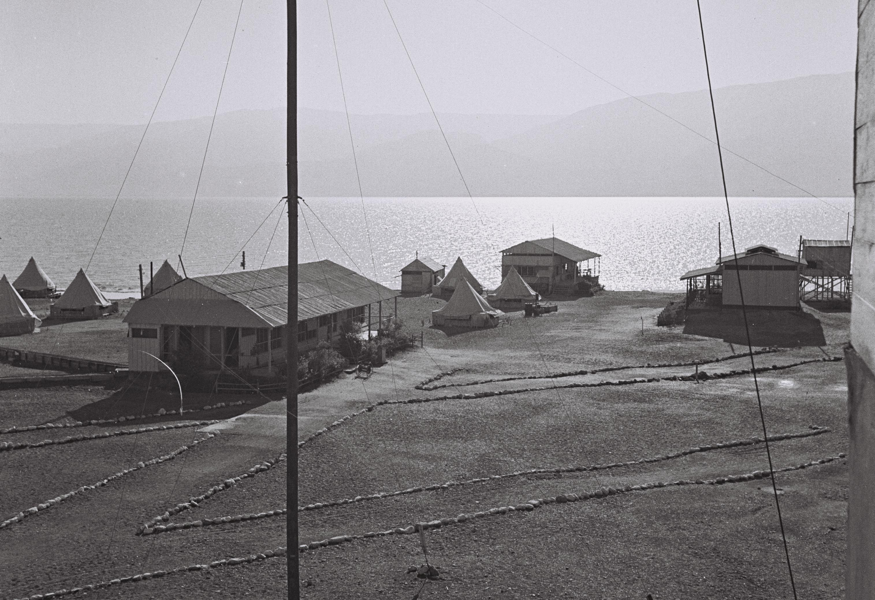 THE WORKER'S CAMP AT THE SODOM POTASH FACTORY IN THE DEAD SEA